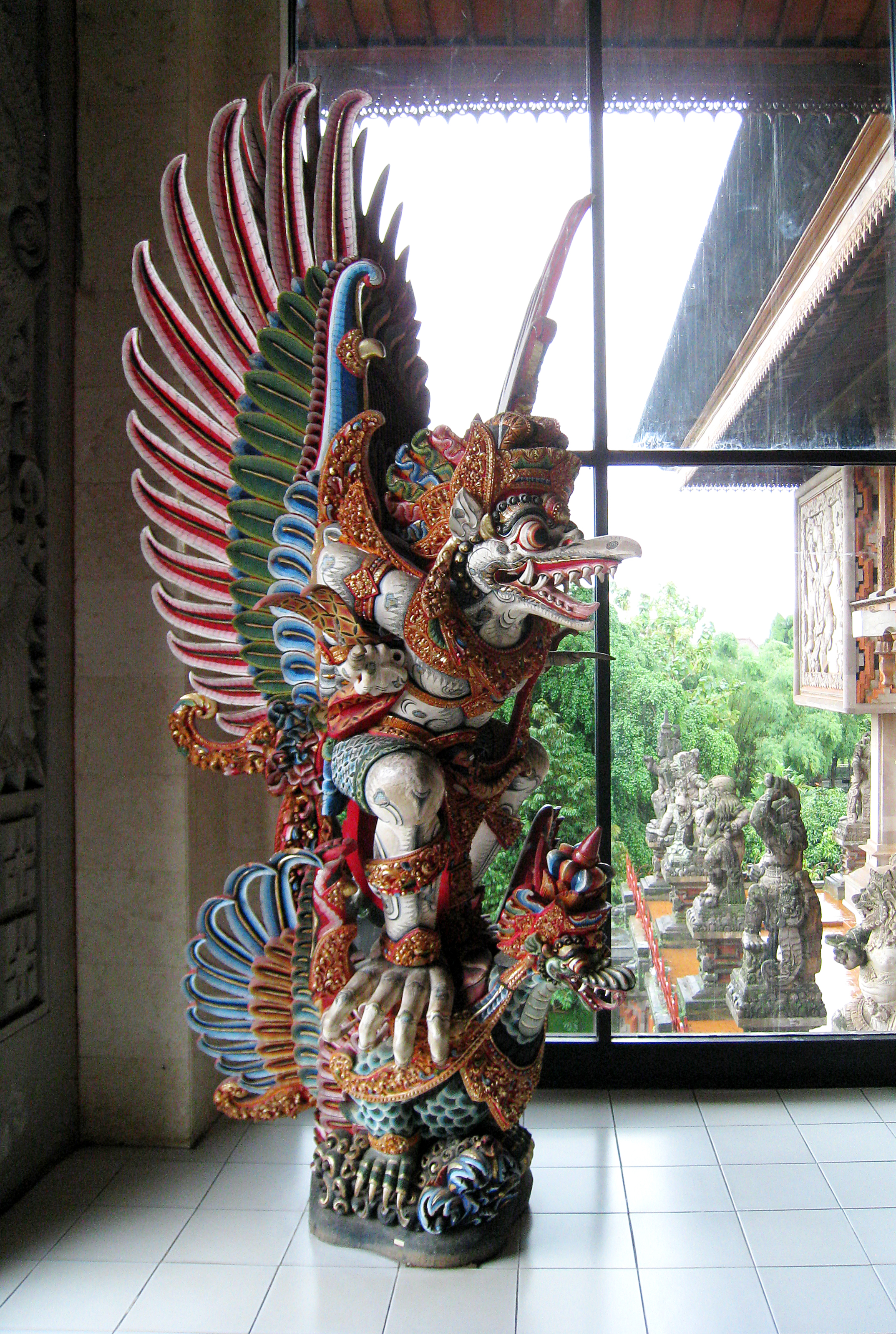 Museum Indonesia, Taman Mini Indonesia Indah, Jakarta The colorful wooden statue of Balinese Garuda, Museum Indonesia, Taman Mini Indonesia Indah, Jakarta, Indonesia.